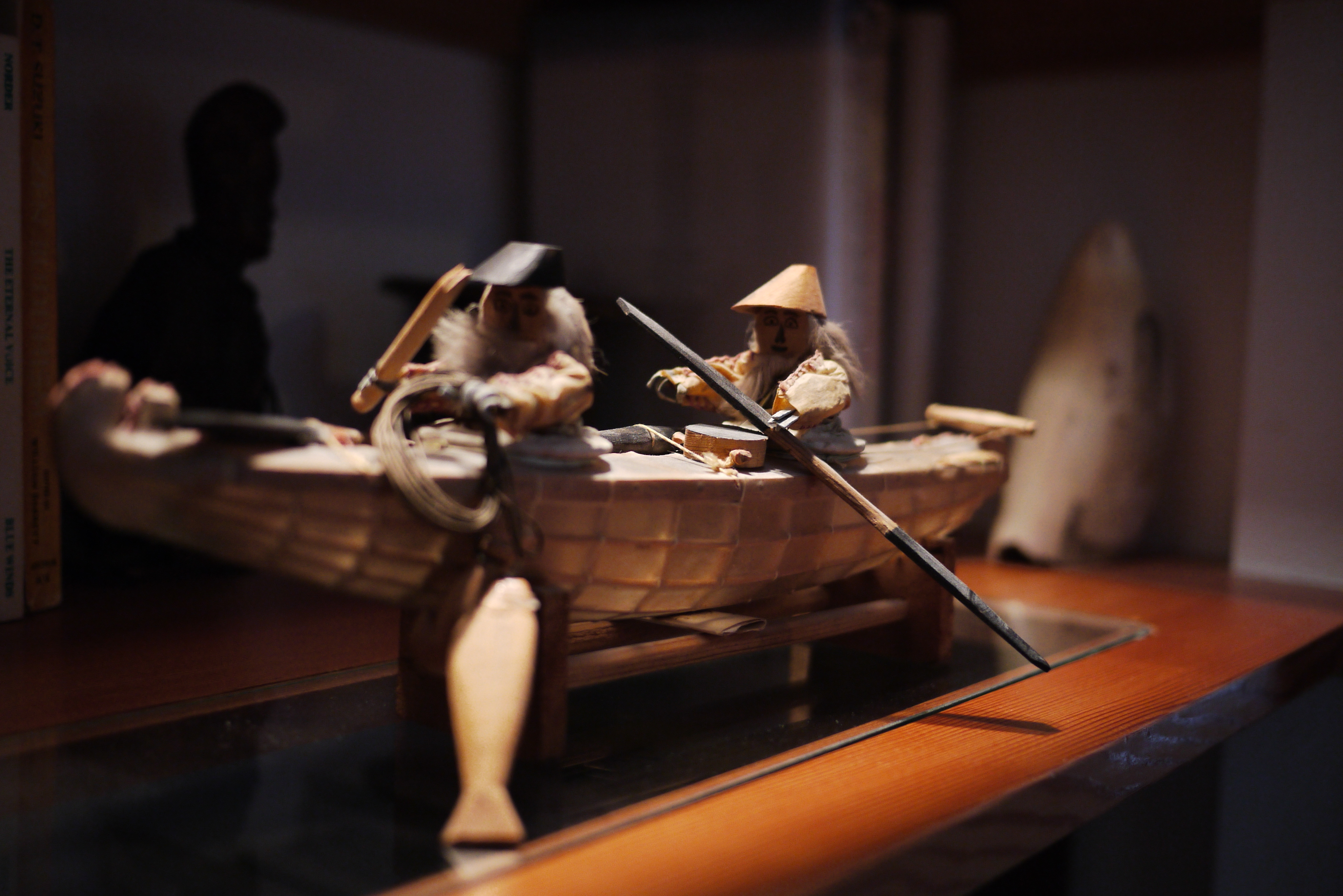 I was given this 35 years ago